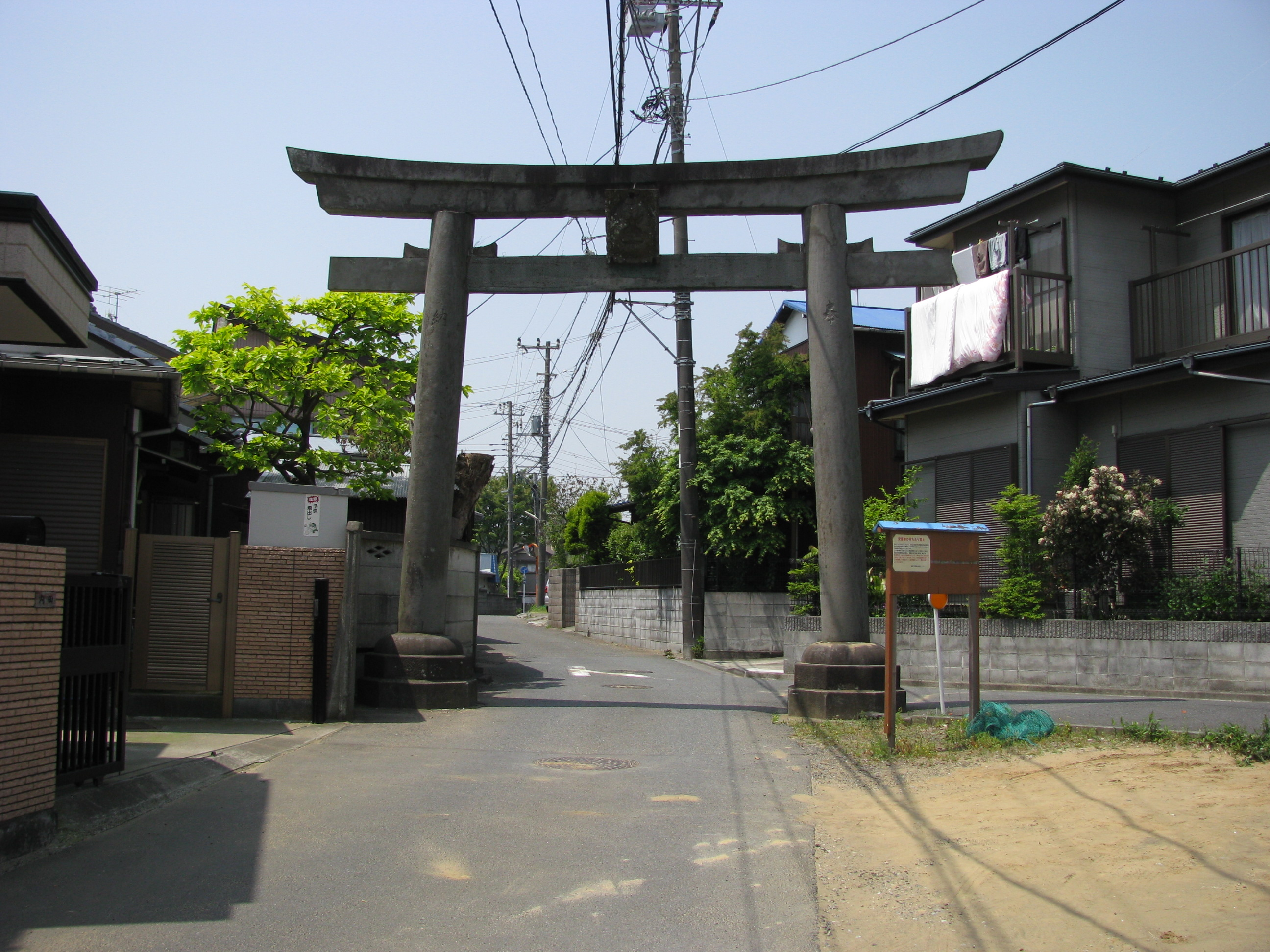 The Oyama-do is a one of historical street. This is a Torii (Reconstructed in 1959) of the Oyama-Afuri-jinja (Oyama-Afuri Shrine) on the Oyama, And starting point of Main Oyama-do. This place is intersection with the Old Tokaido and the Japan National Route 1, Located in Fujisawa, Kanagawa, Japan.